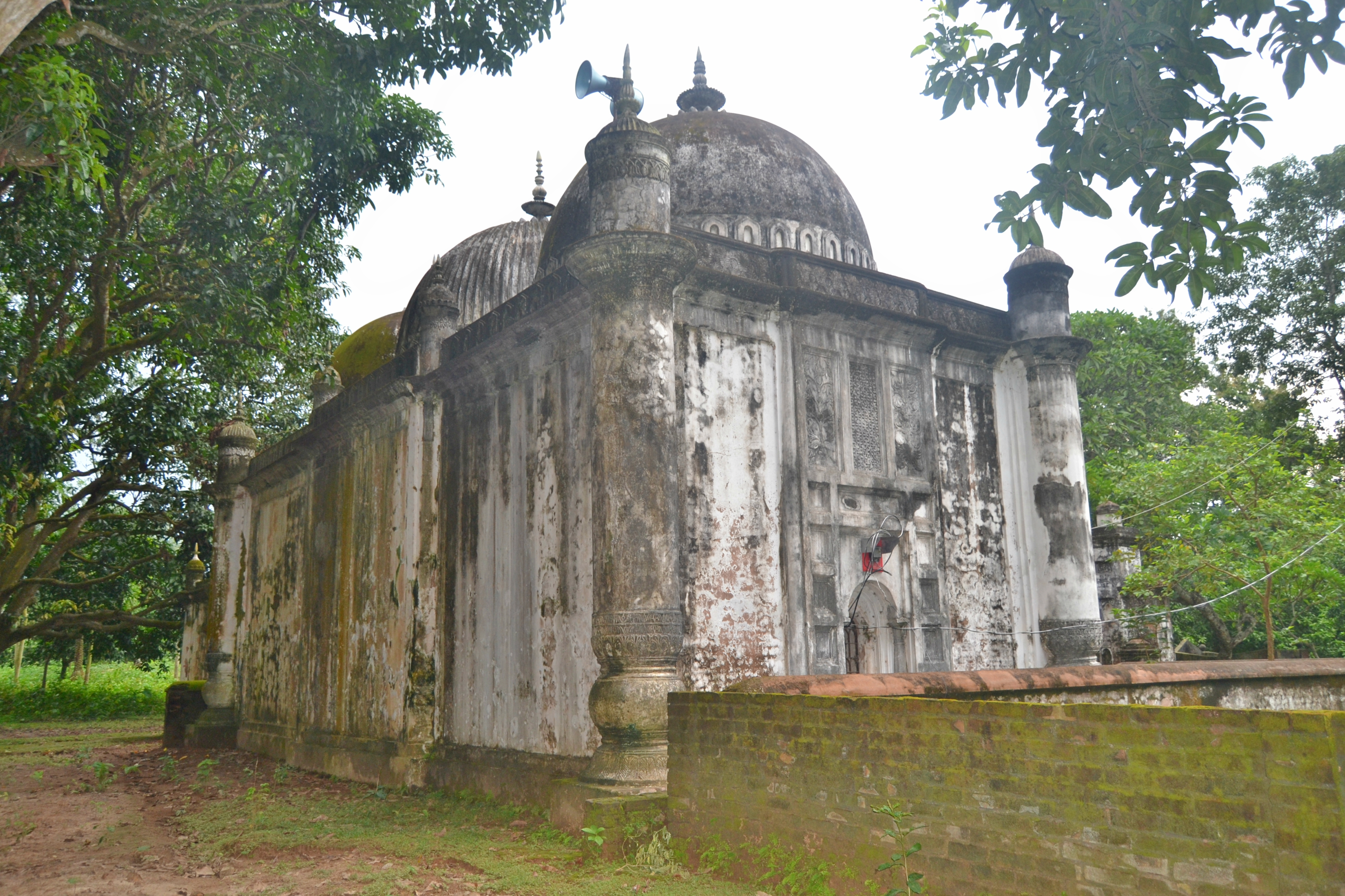 Fulchouki Mosque, Mithapukur, Rangpur